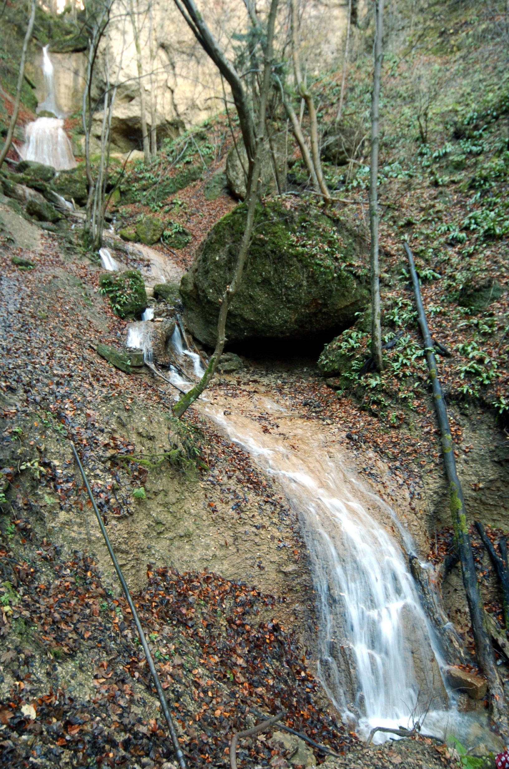 Waterfall in the municipality Ebenthal in Kärnten, district Klagenfurt-Land, Carinthia, Austria